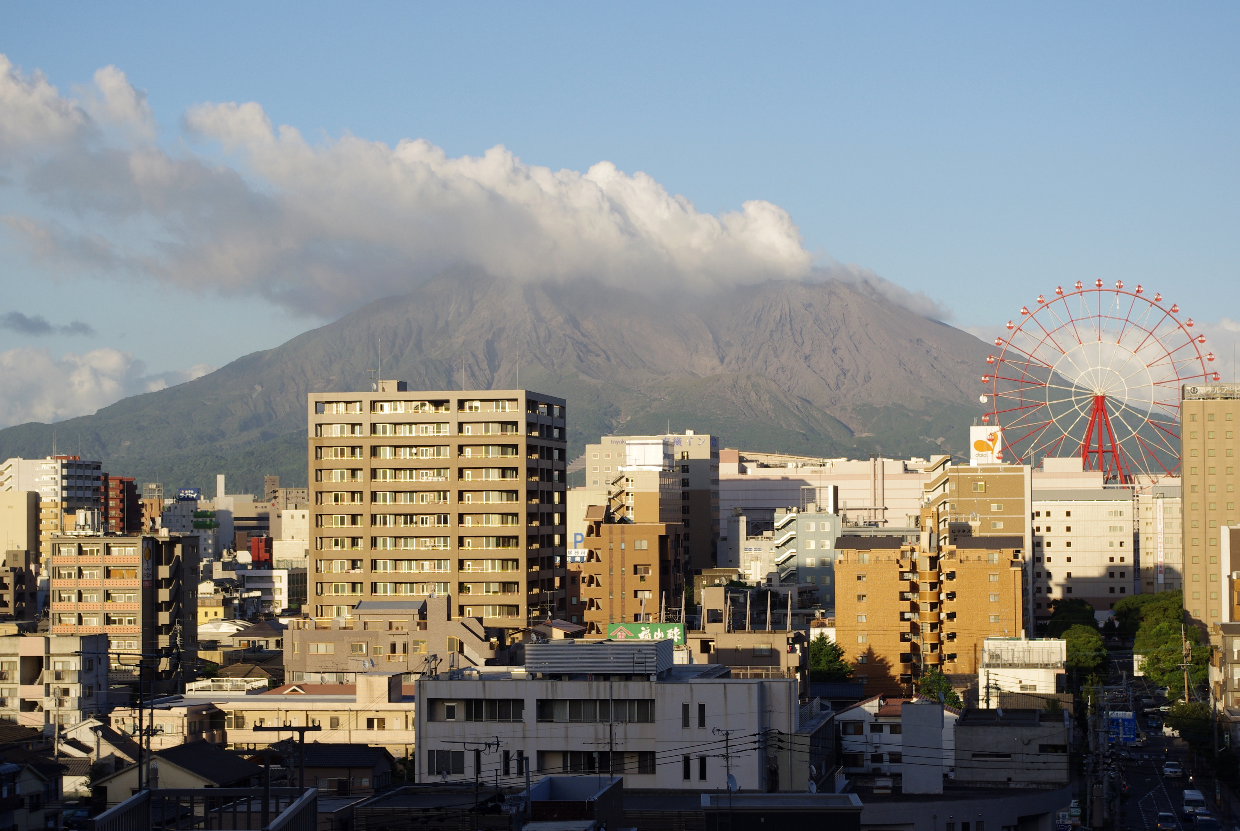 Volcano Sakurajima and the city of Kagoshima